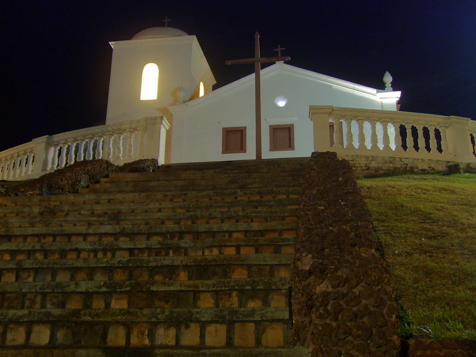 Church of Our Lady of the Rosary and the Saint Benedict's Chapel, Cuiabá, Mato Grosso, Brazil.